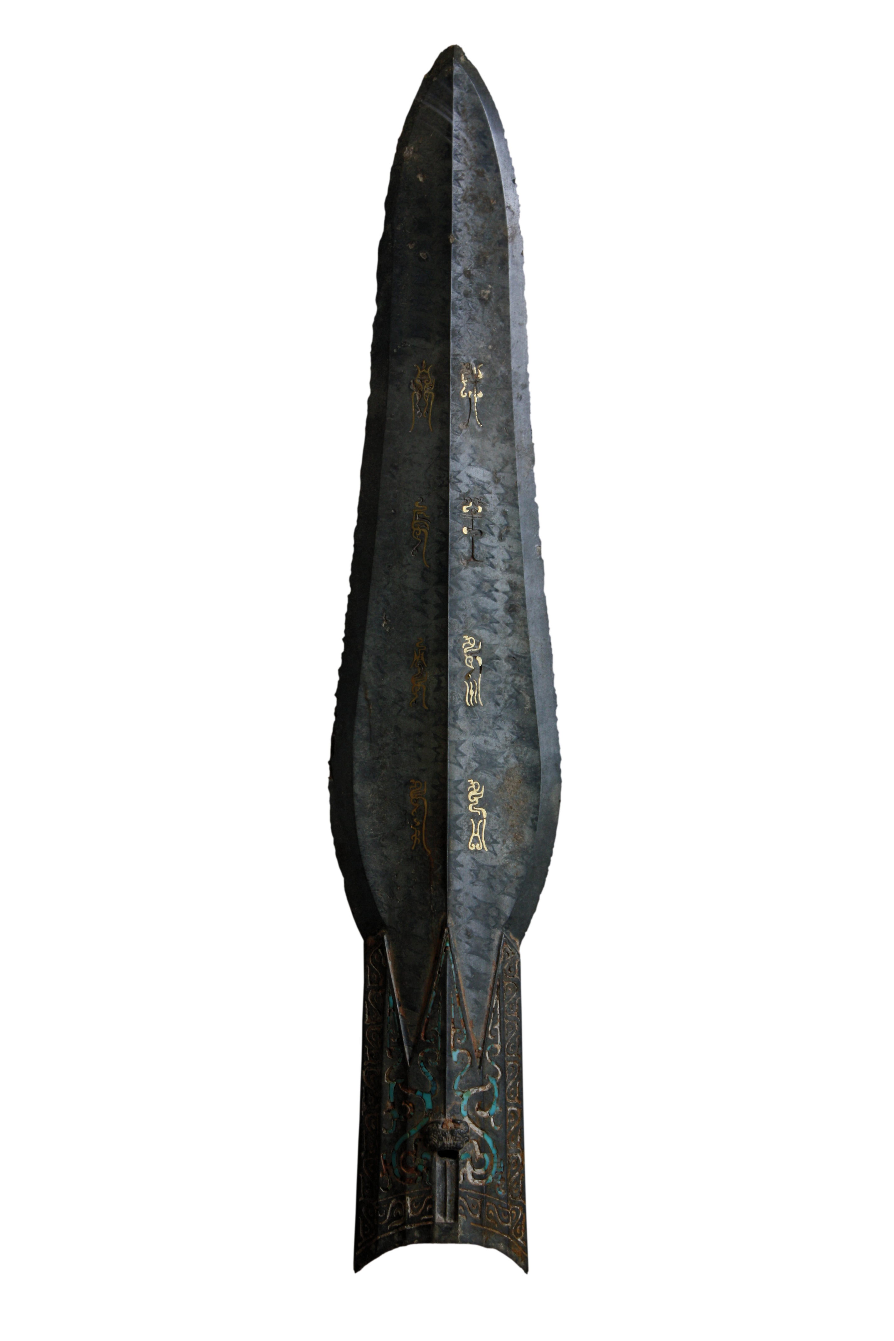 Bronze spearhead inscribed with golden characters and decorated with turquoise on the shaft. Eastern Zhou period. The inscription is an example of Bird-worm seal script (see Chinese bronze inscriptions) and names the owner as King Zhu Gou, of the State of Yue, Southern China